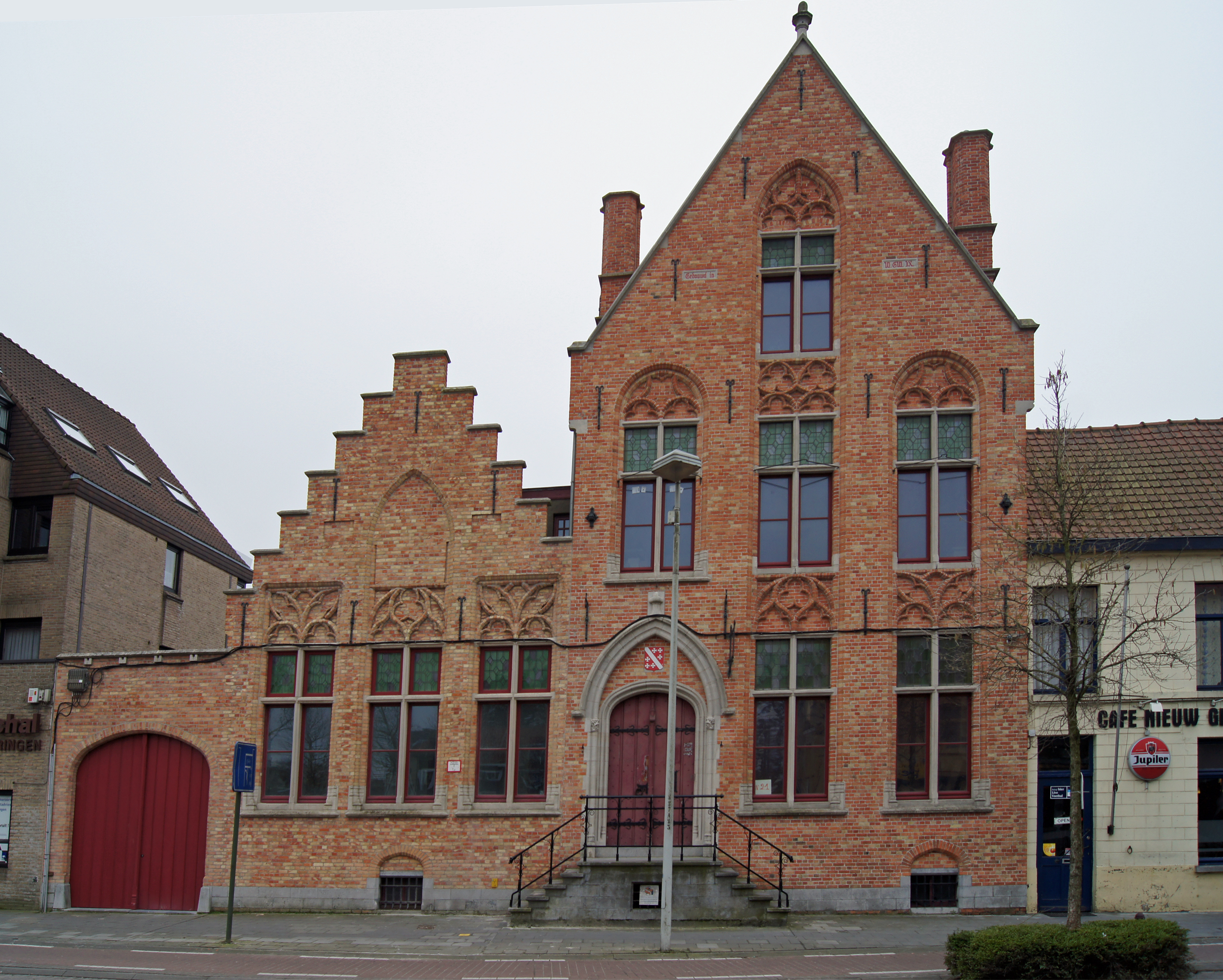 Bruges (Assebroek), Belgium: Former town hall